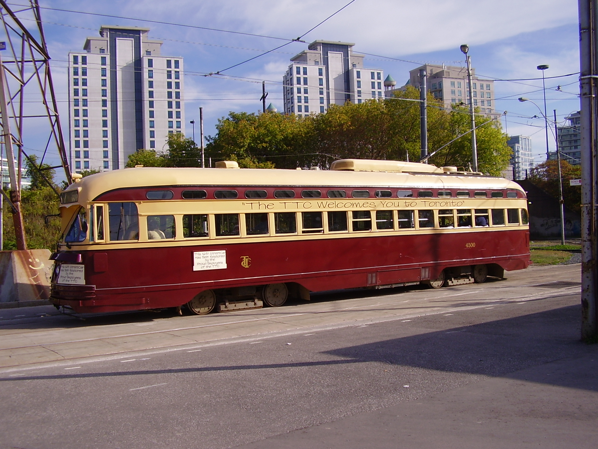 Toronto Transit Commission's streetcar PCC 4500 rests at Humber Loop